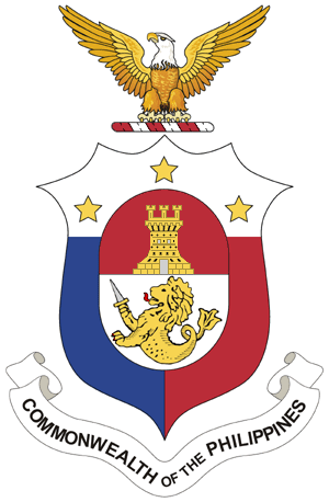 Coat of arms of the Commonwealth of the Philippines (1935–1946) Arms — Paleways of two pieces, azure and gules; a chief argent studded with three golden stars equidistant from each other; over all the arms of Manila, per fess gules and argent, in chief the castle of Spain or, doors and windows argent, in base a sea lion or, langued and armed gules, in dexter paw a sword hilted or. Crest — The American eagle displayed proper. Beneath, a scroll with the words 'Commonwealth of the Philippines' inscribed thereon.